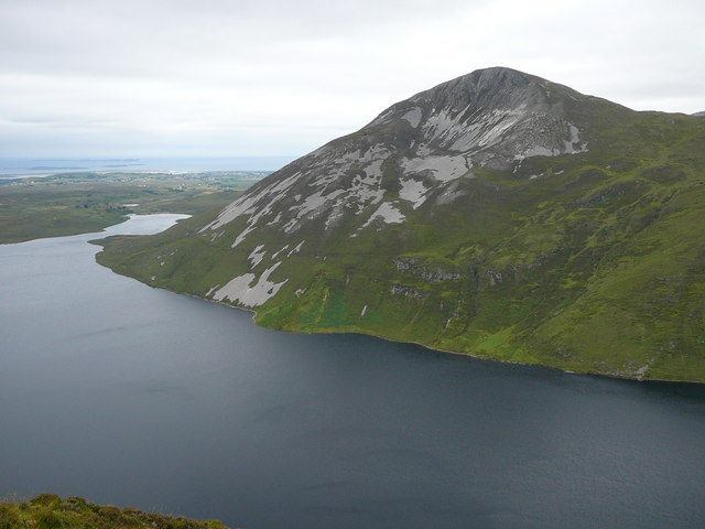 Aghla More from Beaghy